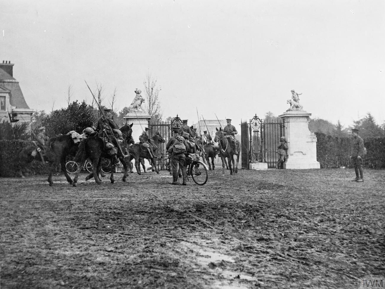 Men of 16th Lancers at the entrance to Hollebeke Chateau, 30 October 1914